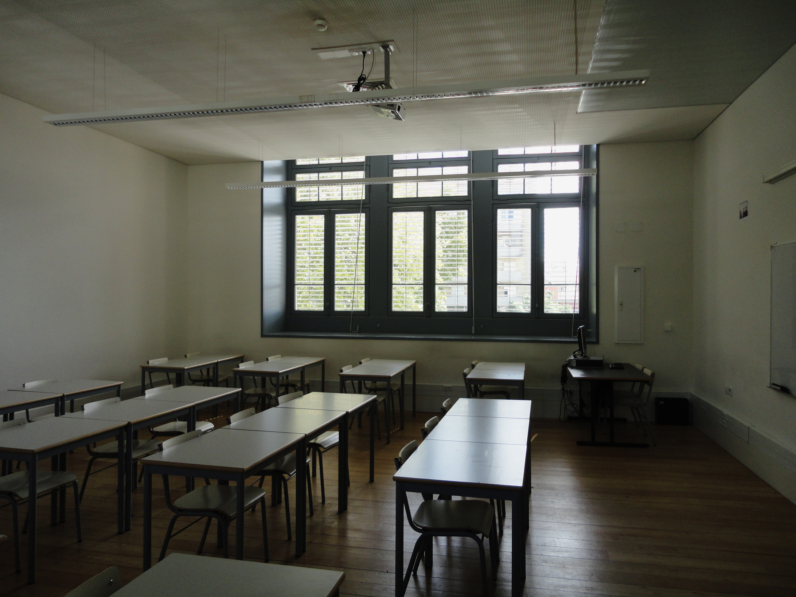 Pedro Nunes Secondary School, Lisbon, 2010 (renewed classroom)